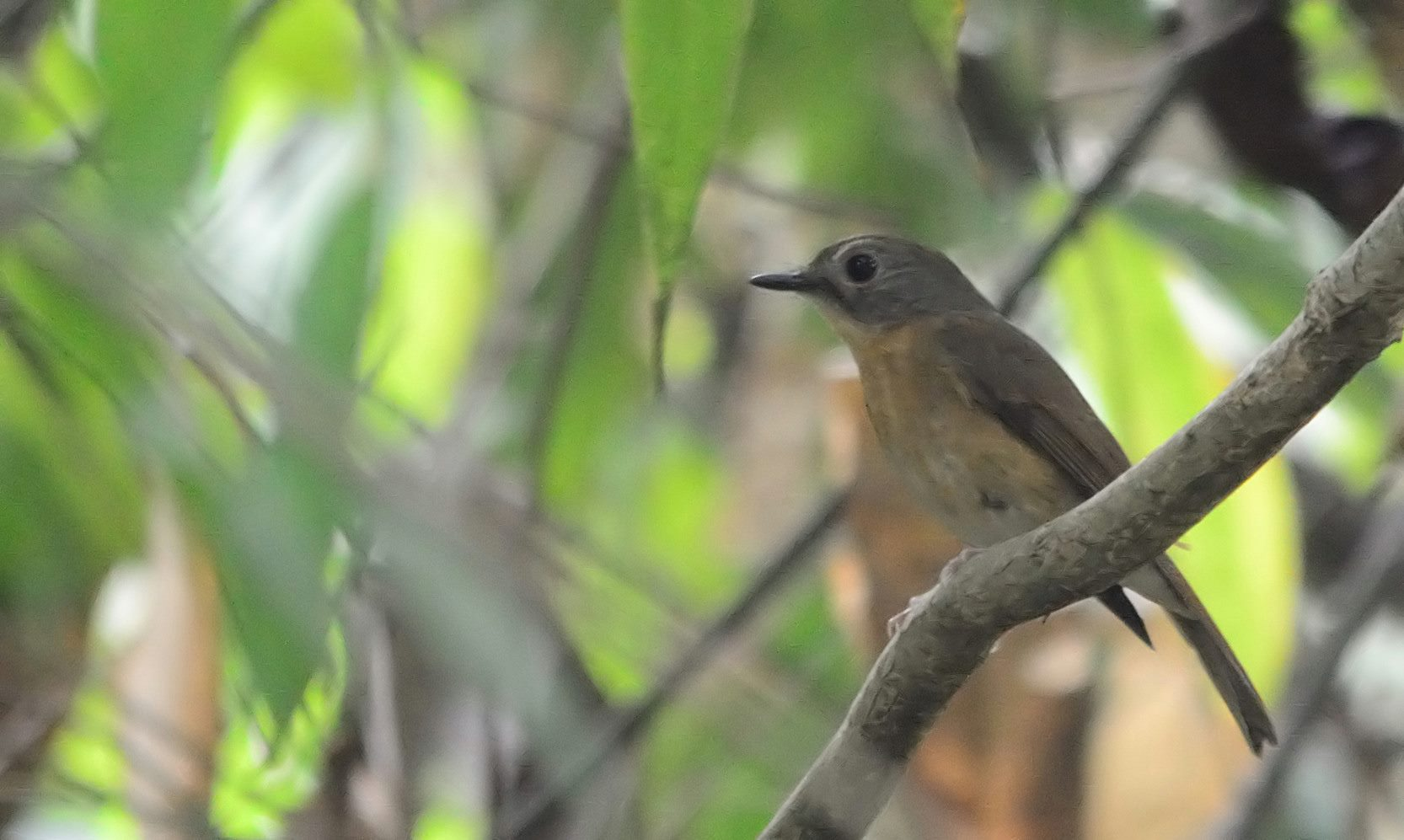 Pale-chinned Flycatcher (Cyornis poliogenys), Assam.